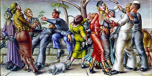 Oil on canvas the painting is hung at the Navy Art Gallery, Washington Navy Yard, where, unless it is on loan, it is on public display.